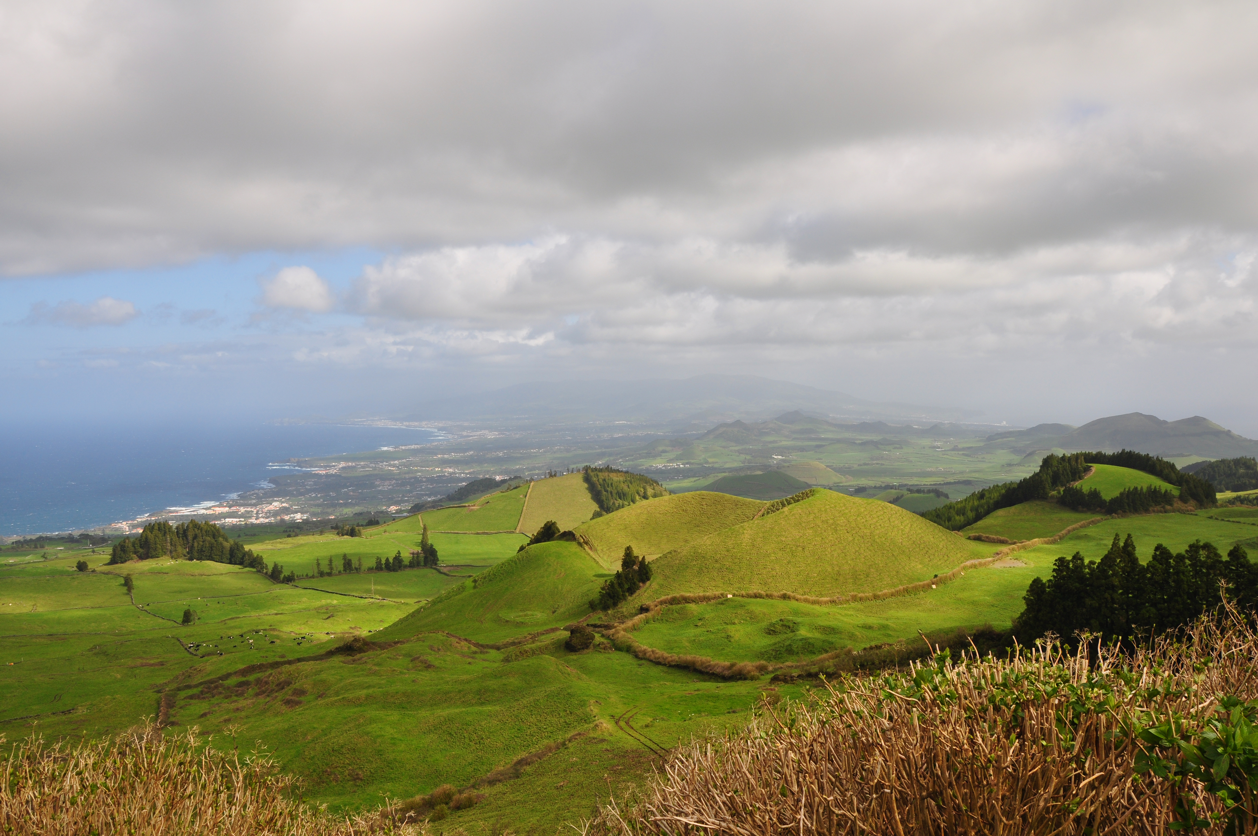 The country side of the island São Miguel, one of the nine volcanic islands of the Azores.